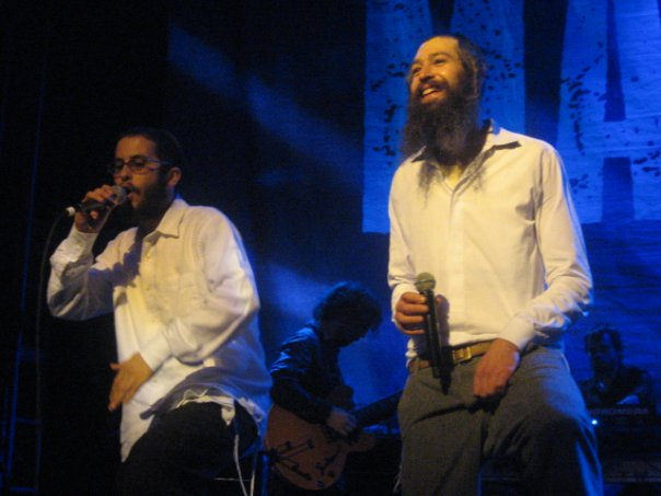 Nosson and matis